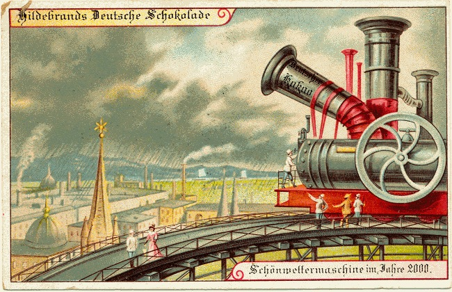 Germany in 2000 year (XXI century). Good-weather-machine. Germany, Hildebrand Factory chocolade.